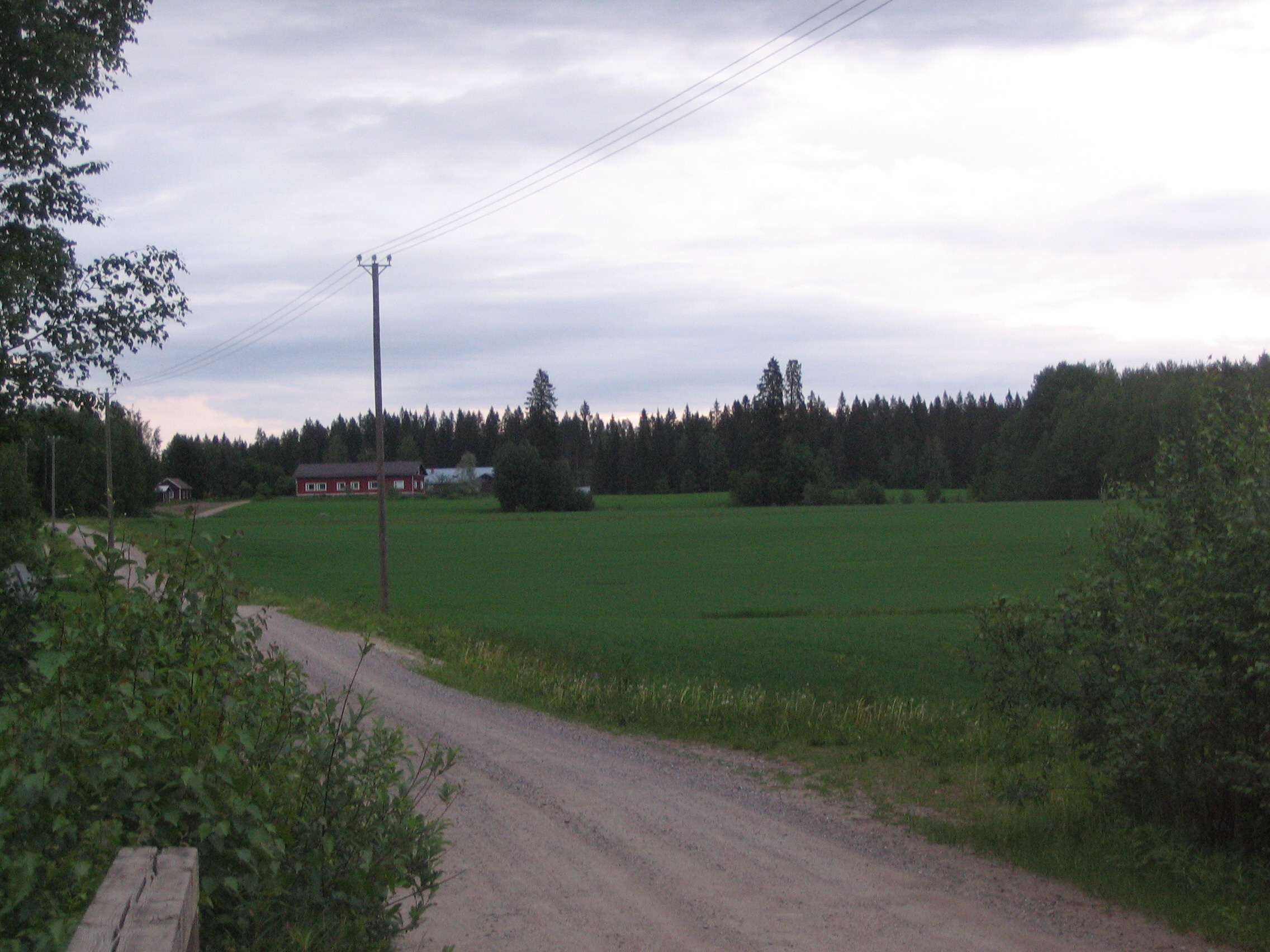 Fields in Pörölänmäki, Suonenjoki, Finland